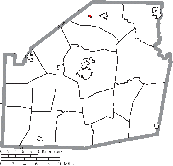 Map of the municipal and township boundaries of Highland County, Ohio, United States, as of the 2000 census, with the location of the village of Highland highlighted. Township borders are shown only in unincorporated areas in order to differentiate incorporated and unincorporated areas more clearly.